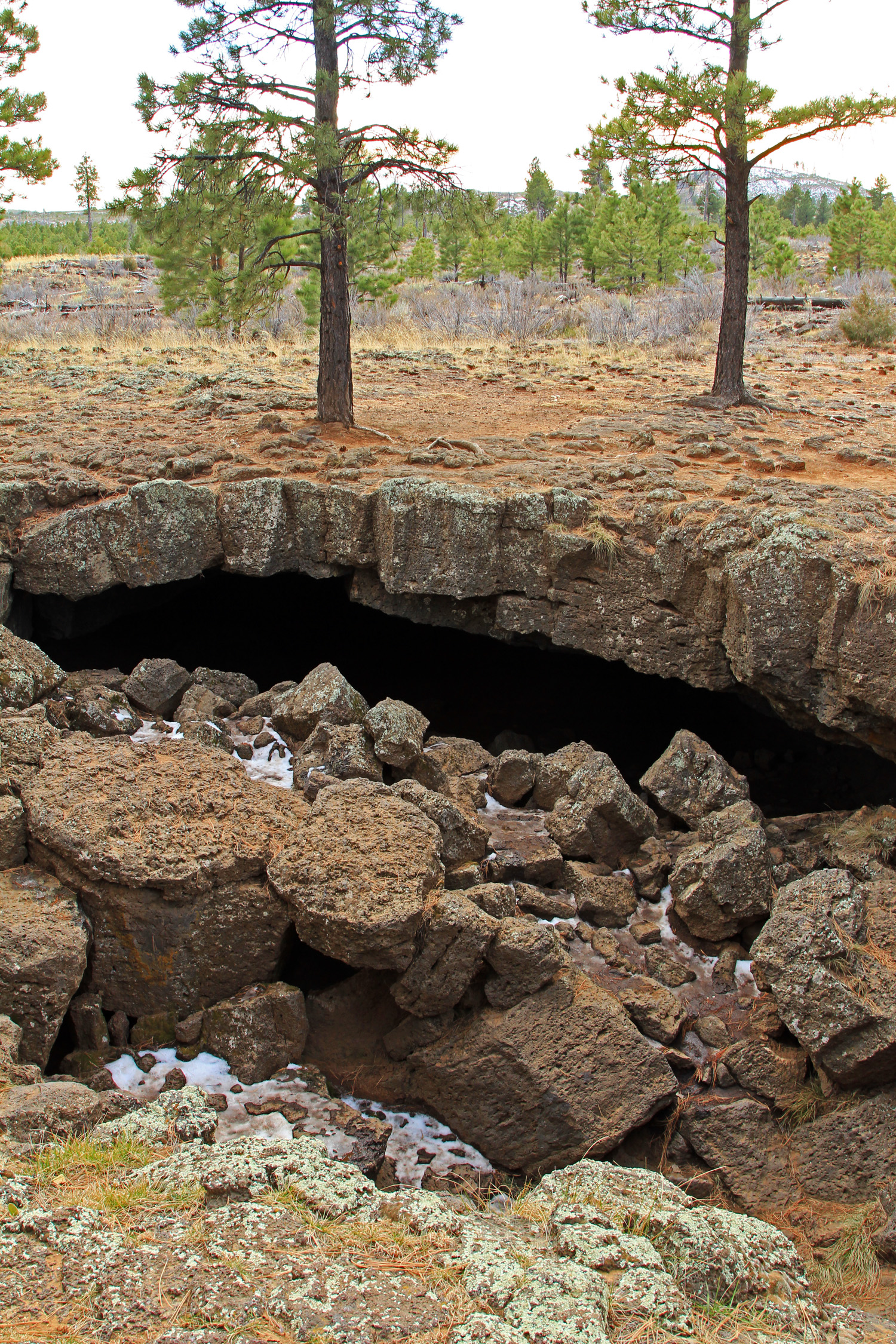 Mammoth Cave is a lava tube in Garfield County, Utah